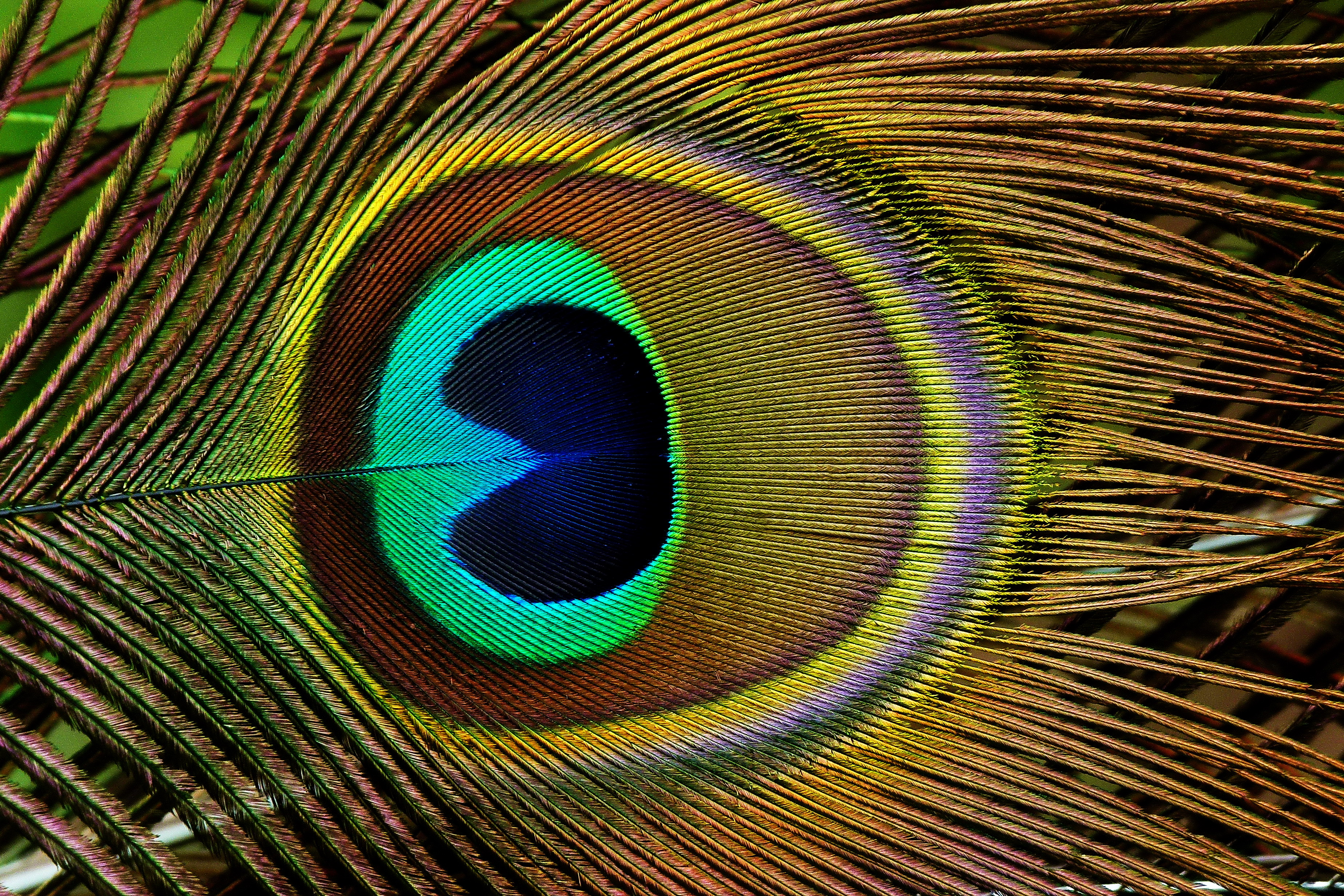 Feather of a living peacock in Trevarno, Cornwall, England